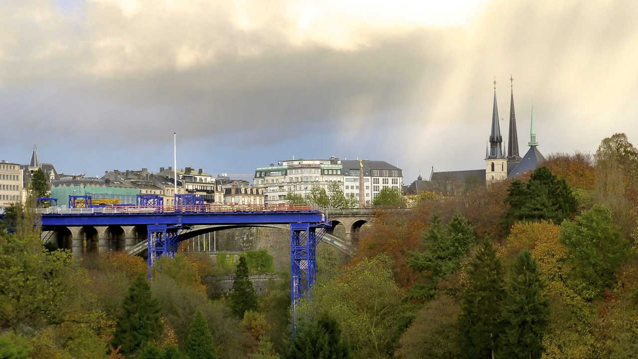 PONT ADOLPHE in Luxembourg-City construction of Blue Bridge, which will replace temporarily PONT ADOLPHE during renovation works from 2014 ... ????